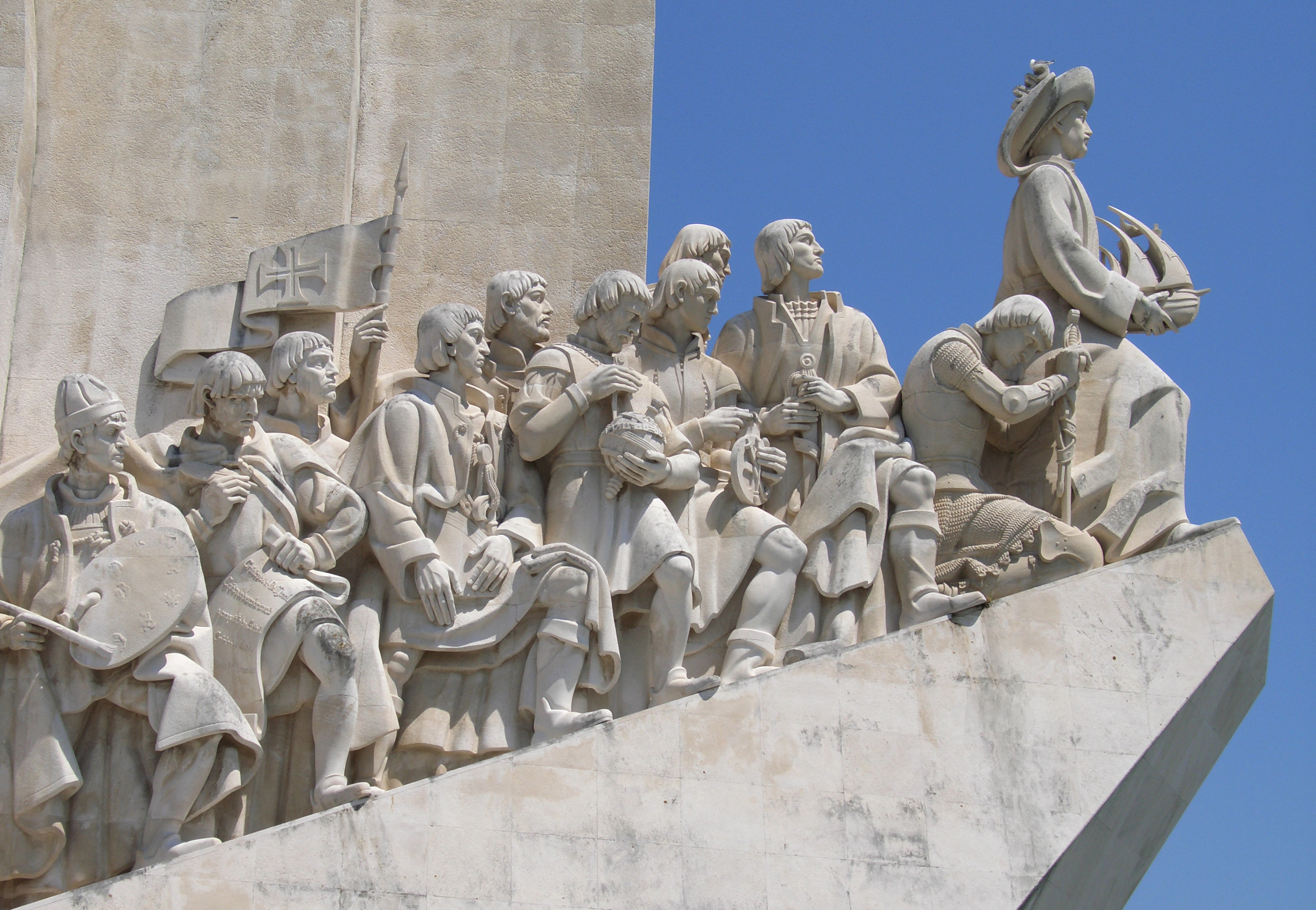 Monument to the Discoveries is a monument that celebrates the Portuguese who took part in the Age of Discovery of the 15th and 16th centuries. It is located on the estuary of the Tagus river in the Belém parish of Lisbon, Portugal, where ships departed to their often unknown destinations.